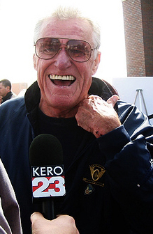 Charles Napier at the Merle Haggard street dedication in Bakersfield, California.